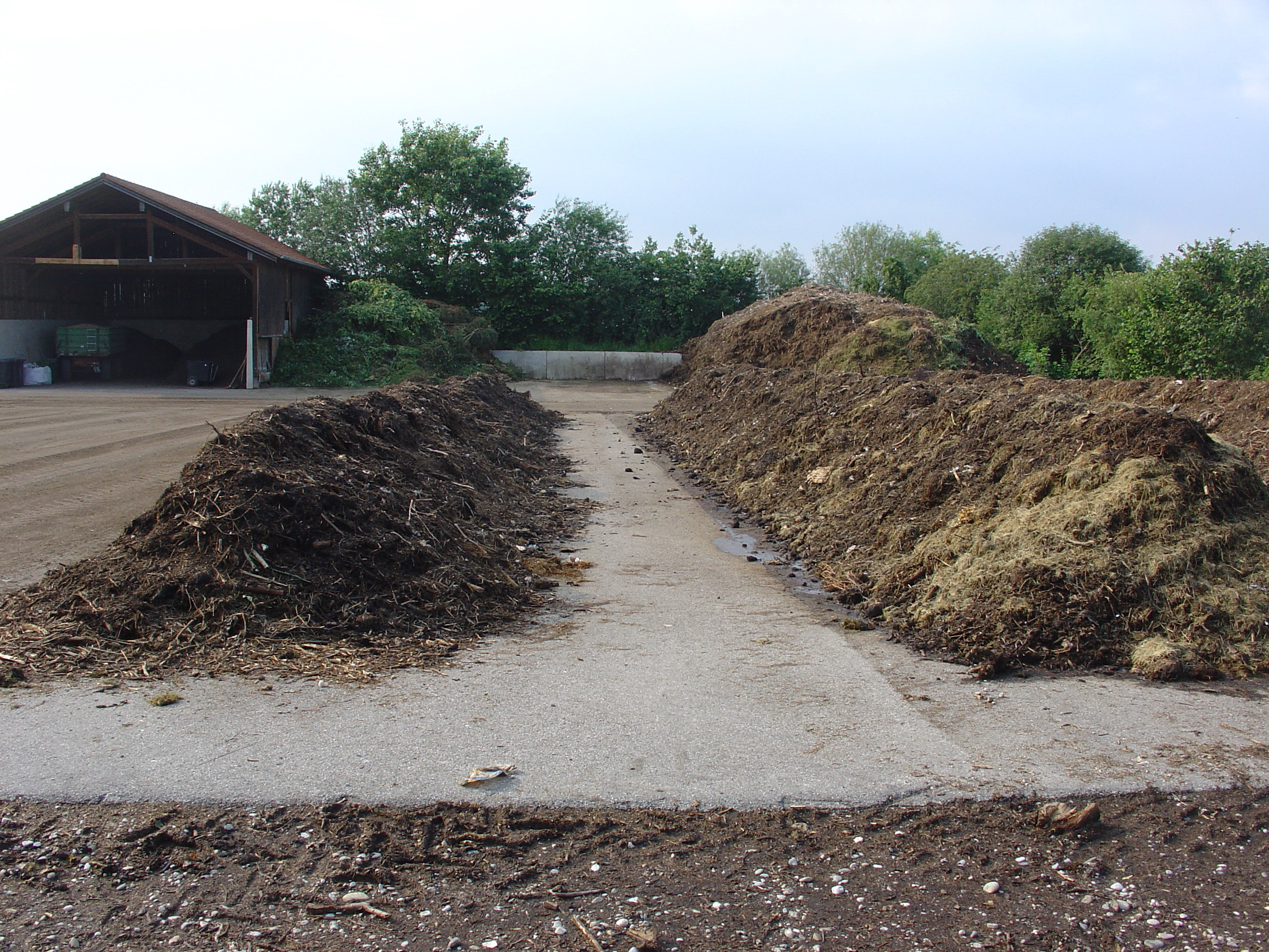 A rural central compost site in Germany